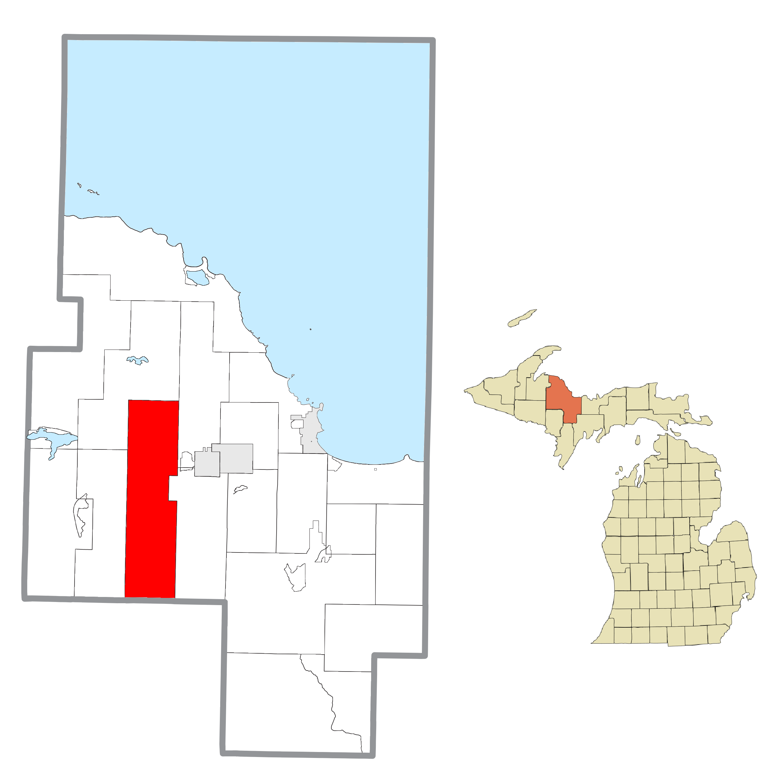 Ely Township, MI